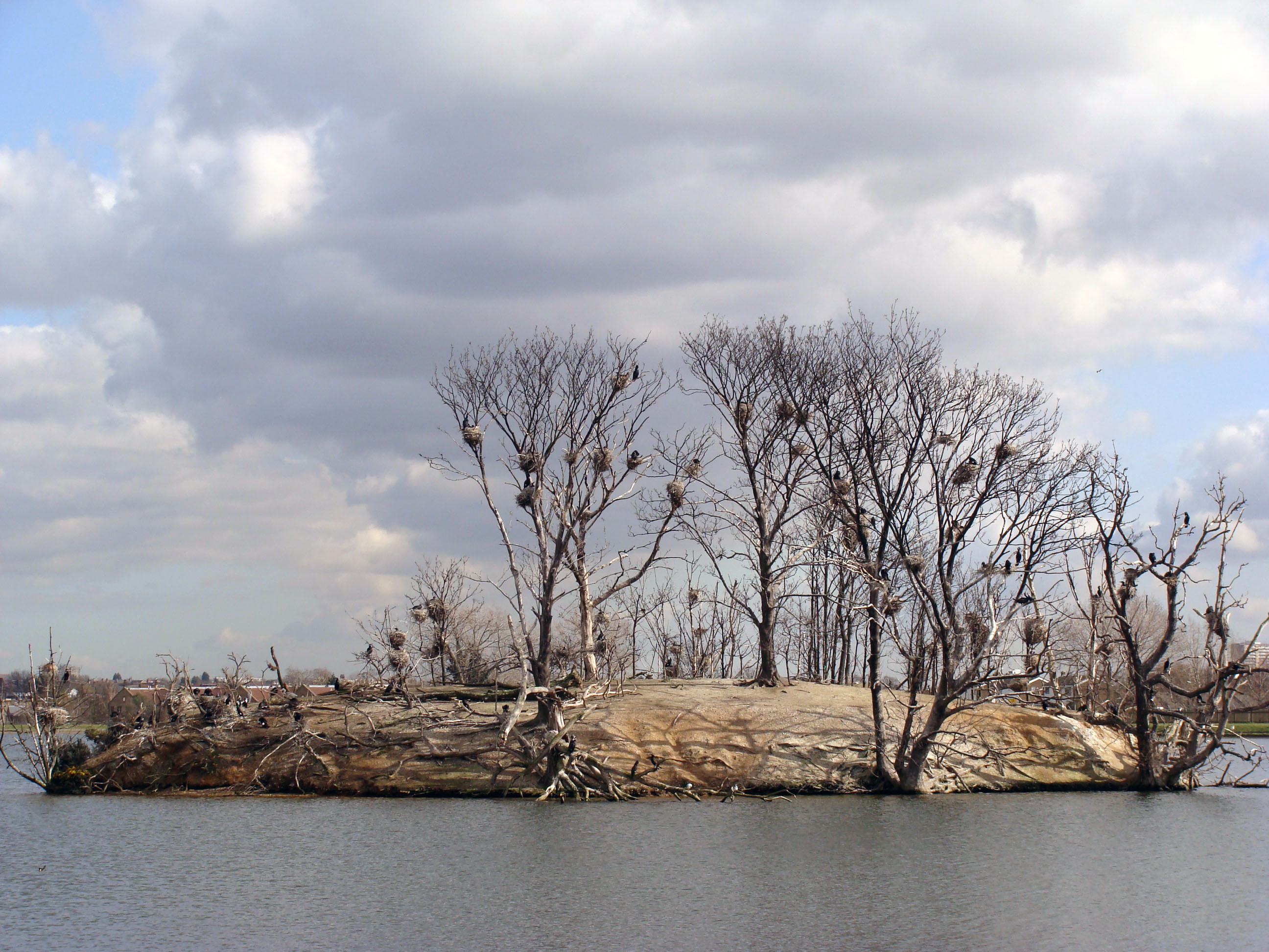 Island in Walthamstow Reservoirs, inhabited by nesting cormorants